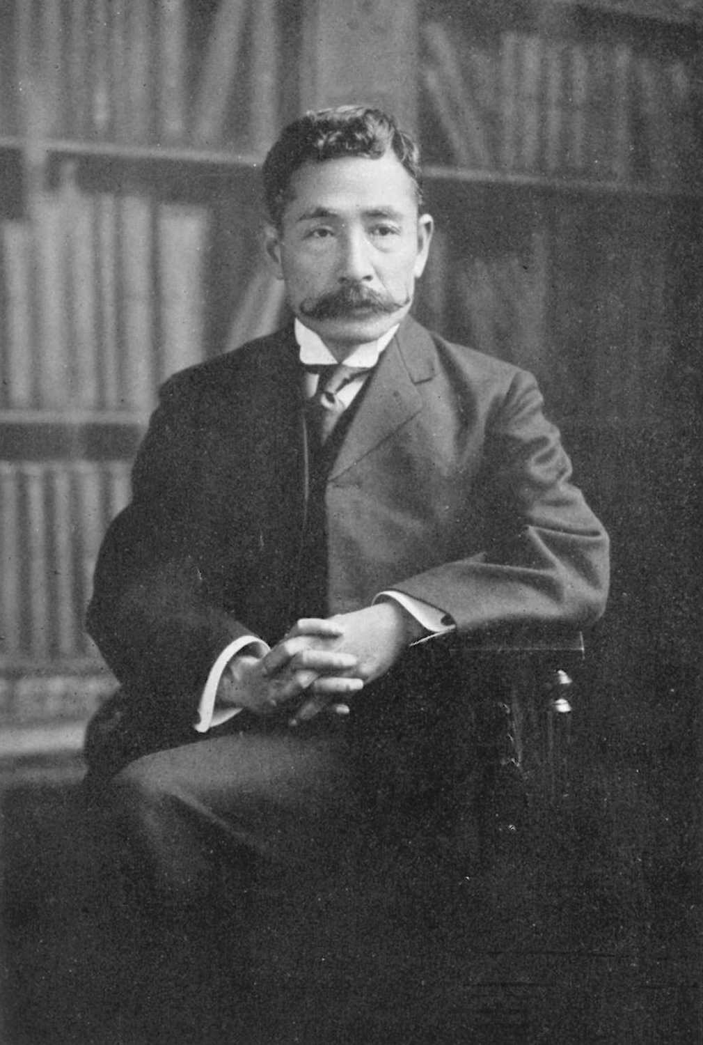 Soseki Natsume